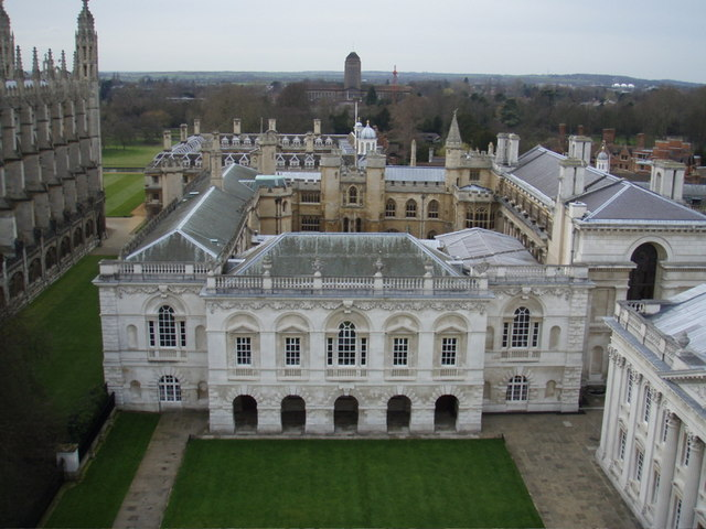 The Old Schools The Old Schools, Cambridge, taken from the top of Great St Mary's